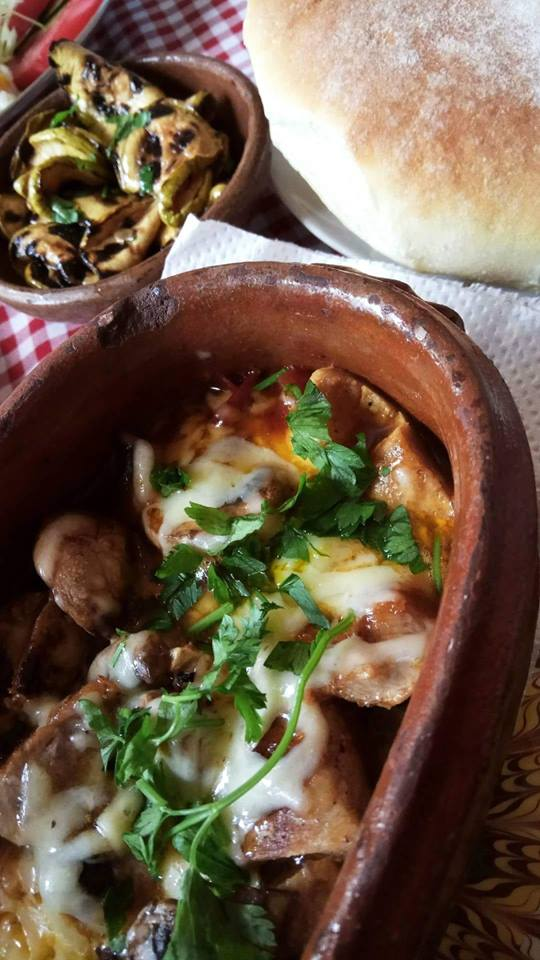 Pork meat with cheese, mushrooms and onion. Side dish: eggplant. Оваа фотографија е подигната во рамки на фотографскиот натпревар Вики ја сака храната 2018 во Македонија.This photo was uploaded during photographic contest Wiki Loves Food 2018 in Macedonia.